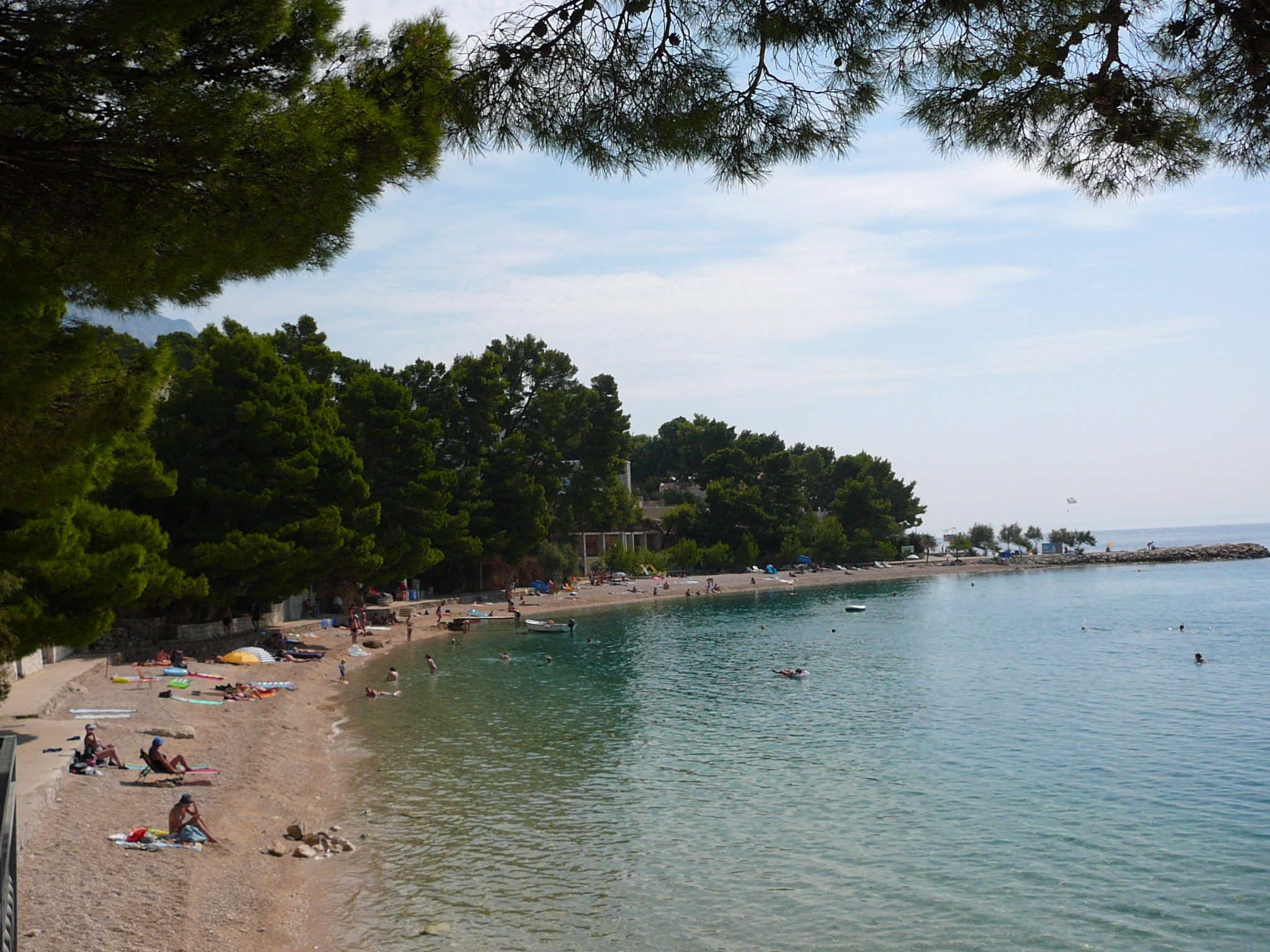 Beach in settlement Krvavica.